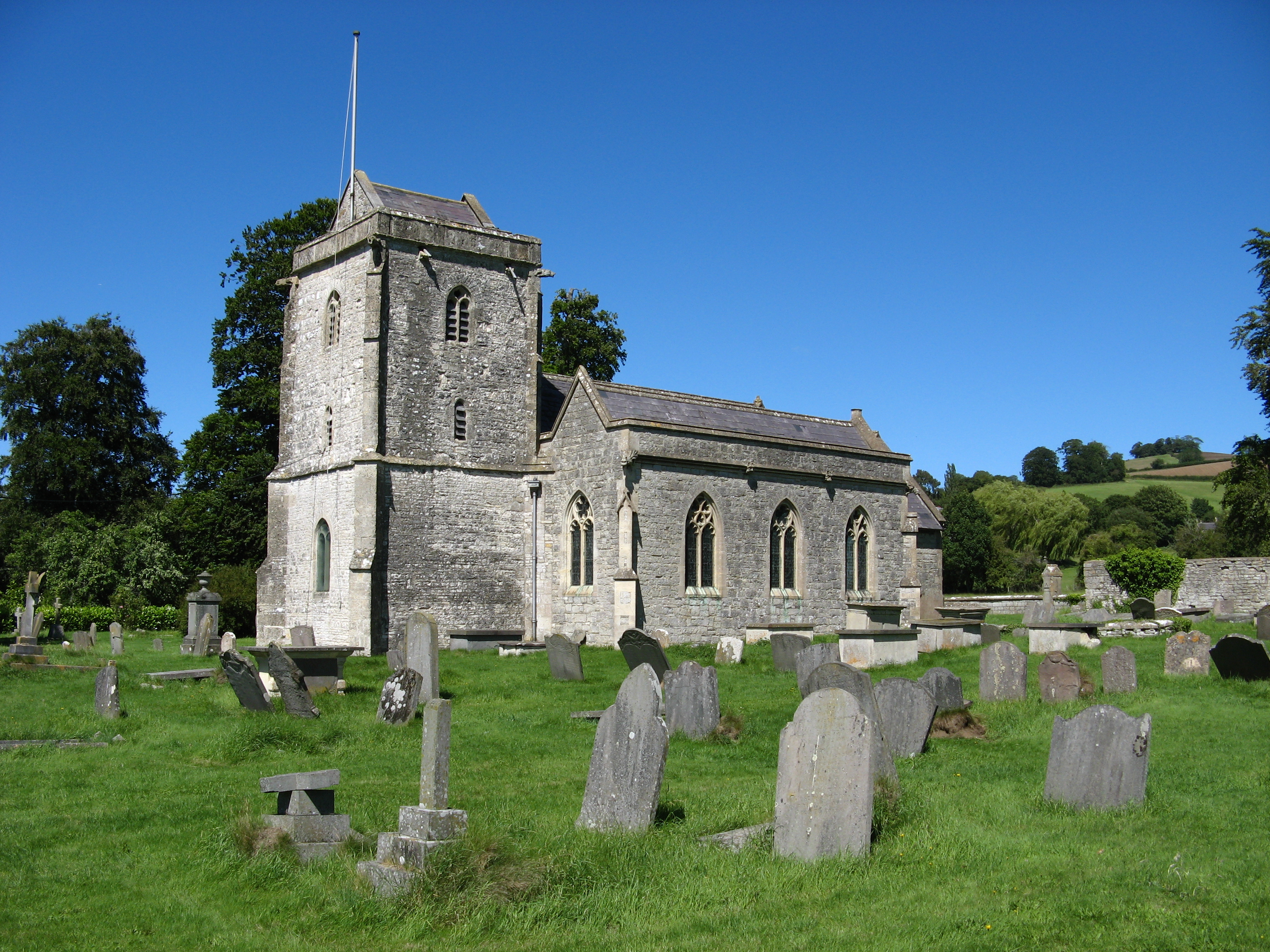 Church of St Nicholas, Kelston, in the Church of England Diocese of Bath & Wells.